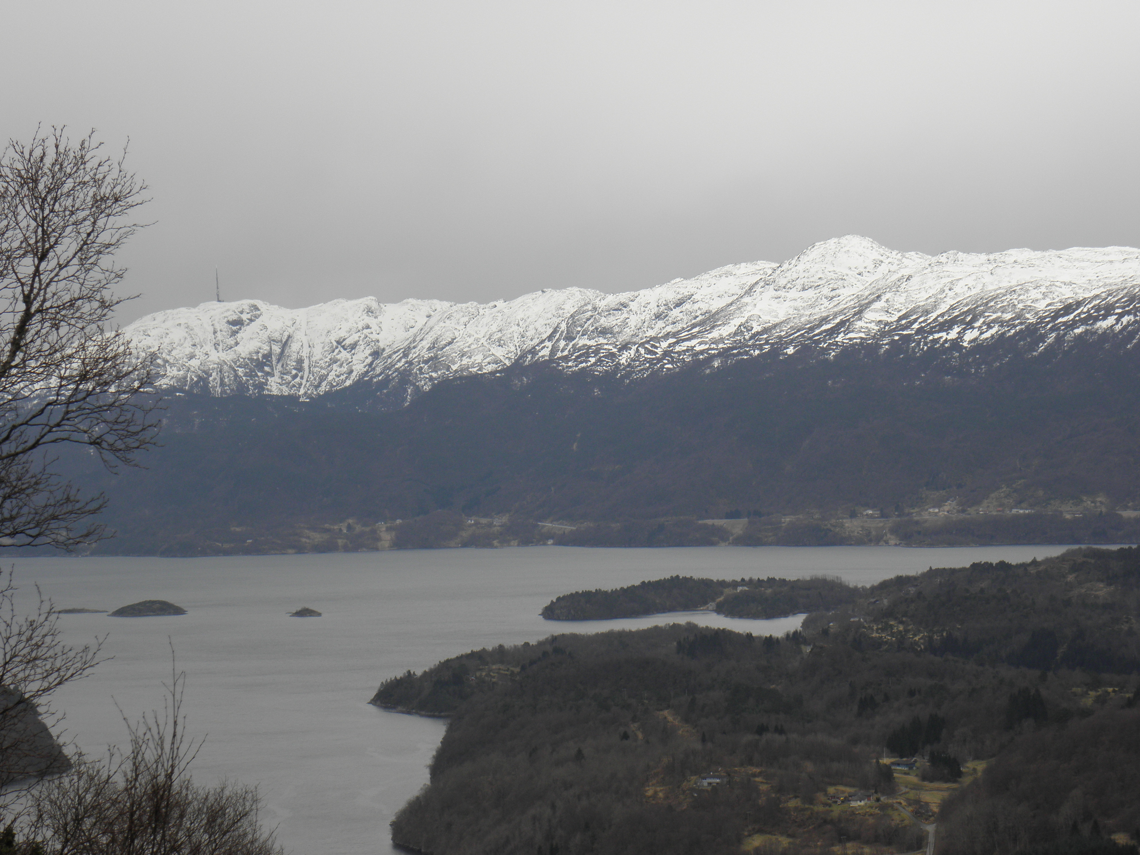 A view of the mountains Kattnakken (left, masted) and Mehammarsåto (right), both located in the municipality of Stord in Hordaland, Norway. Directly below lies the Langenuen strait. The picture is taken from the municipality of Tysnes, which can be seen in the immediate foreground.